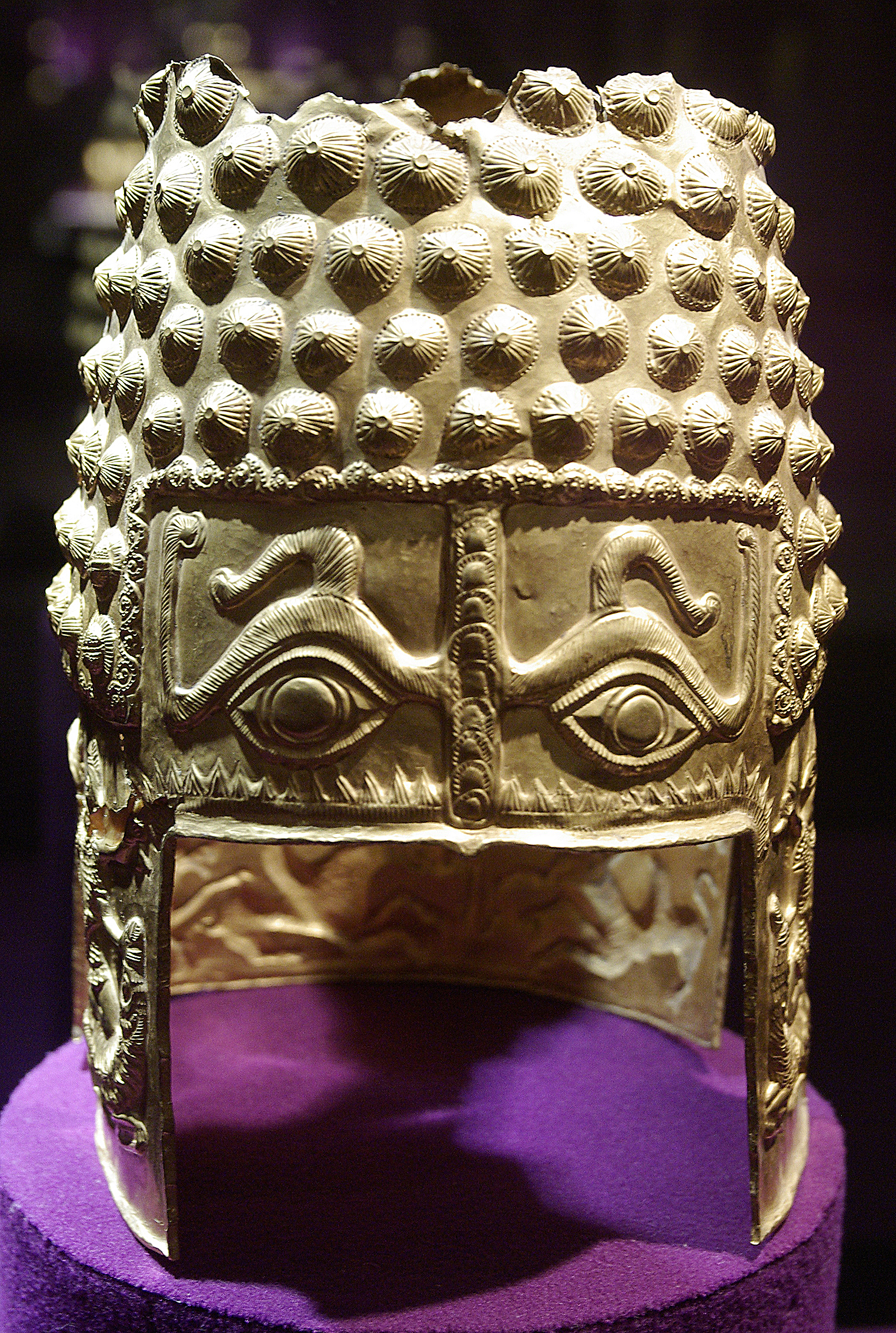 A Geto-Dacian helmet dating from the first half of the 4th century BC, uncovered by chance. View from the front.